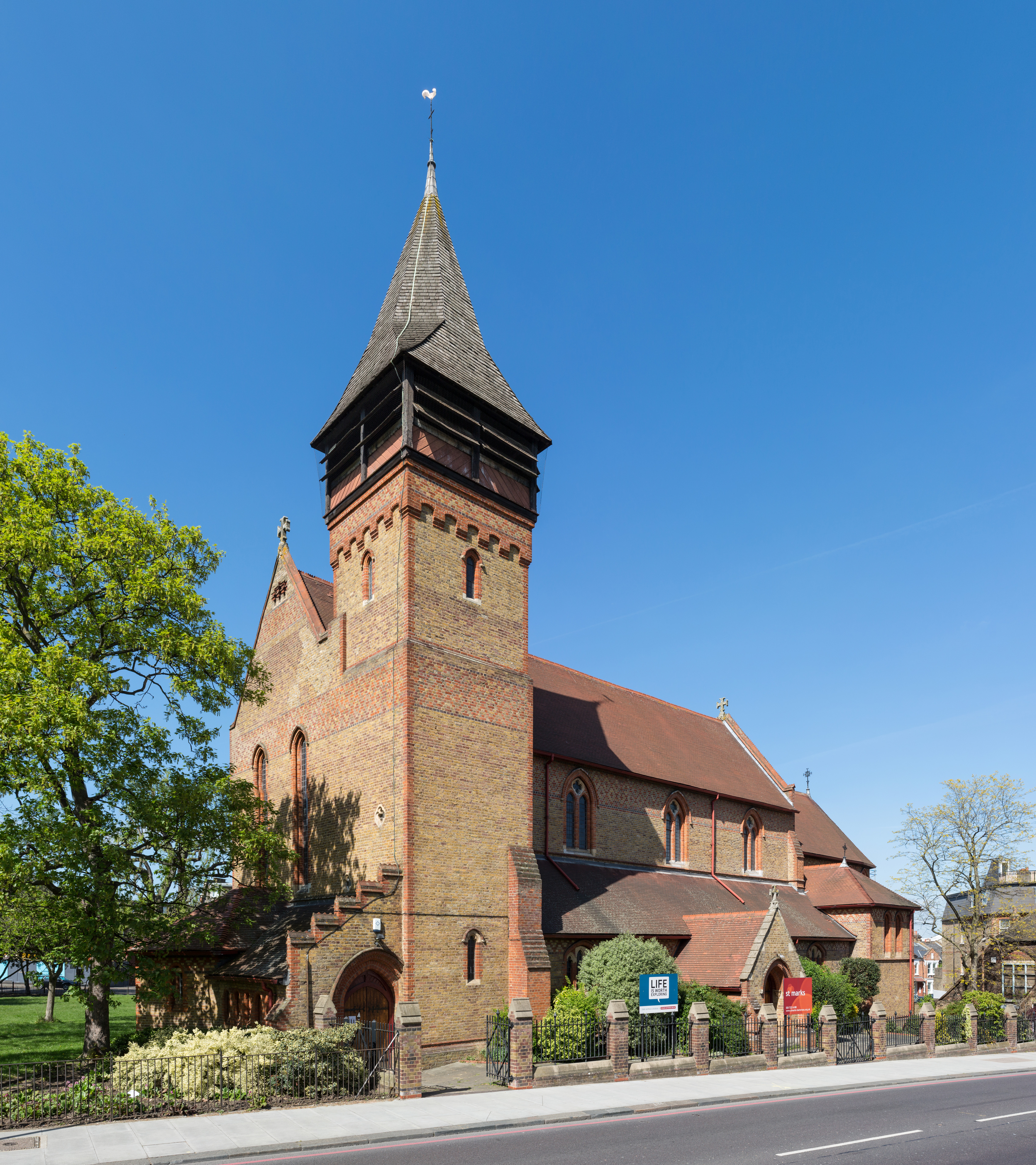 The exterior of St Mark's, Battersea Rise Church as viewed from Battersea Rise.